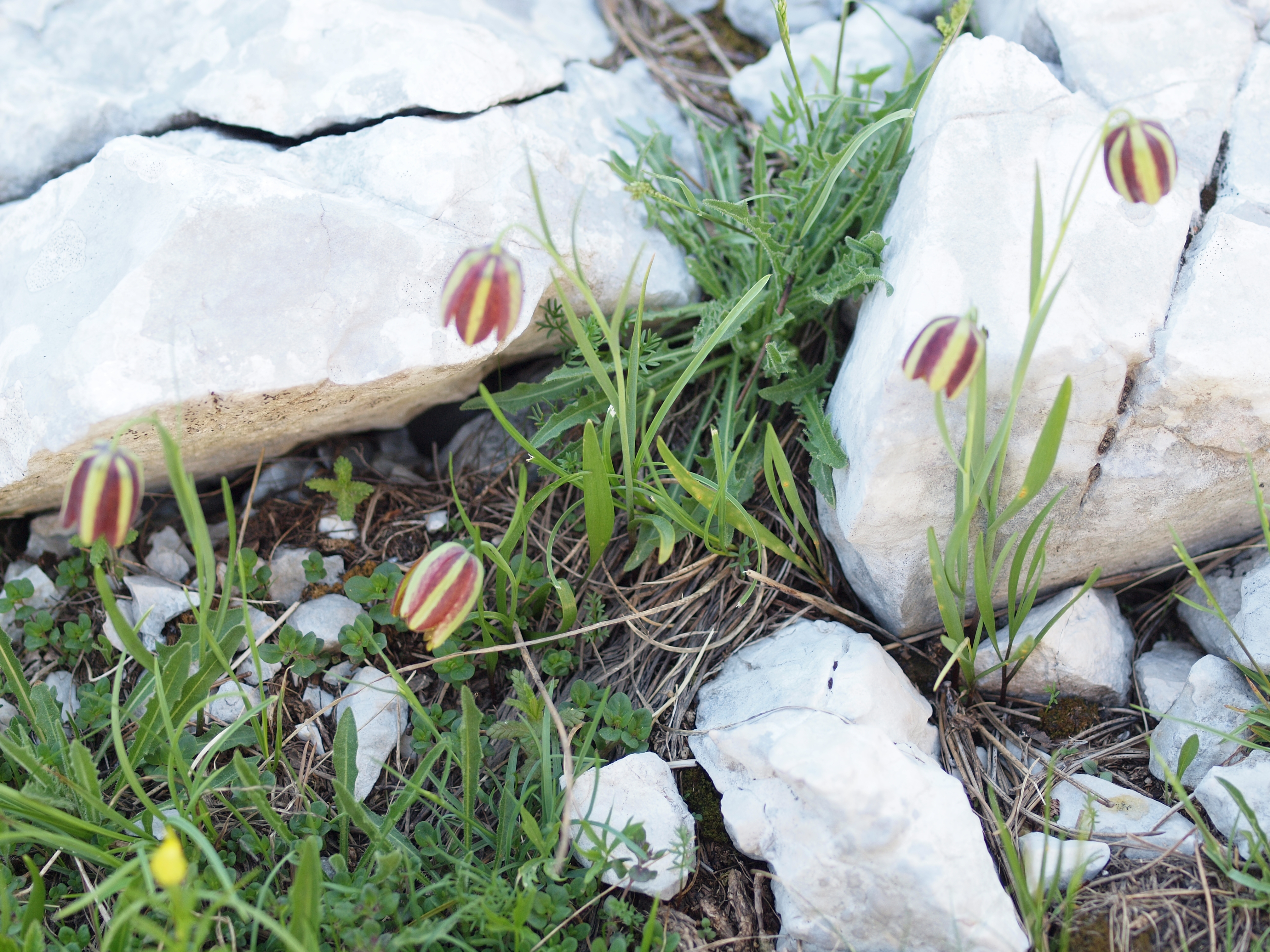 Fritillaria gracilis